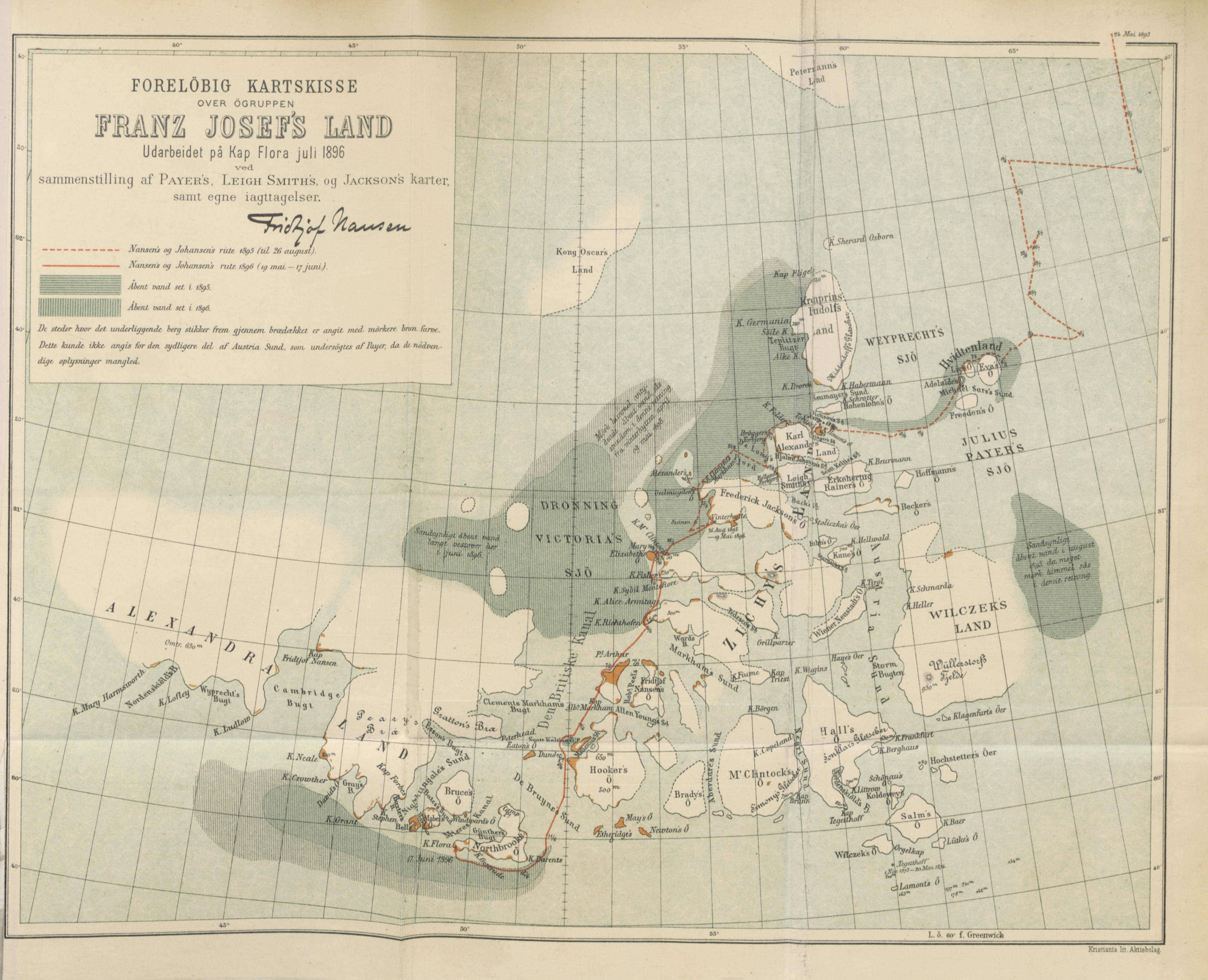 View this map on the BL Georeferencer service. Image taken from: Title: "Fram over Polhavet. Den norske Polarfærd 1893-1896. ... Med et Tillæg af Otto Sverdrup" Author: Nansen, Fridtjof Contributor: SVERDRUP, Otto Neumann. Shelfmark: "British Library HMNTS 10460.d.27." Page: 1151 Place of Publishing: Kristiania Date of Publishing: 1897 Issuance: monographic Identifier: 002603732 Explore: Find this item in the British Library catalogue, 'Explore'. Download the PDF for this book (volume: 0) Image found on book scan 1151 (NB not necessarily a page number) Download the OCR-derived text for this volume: (plain text) or (json) Click here to see all the illustrations in this book and click here to browse other illustrations published in books in the same year. Order a higher quality version from here.